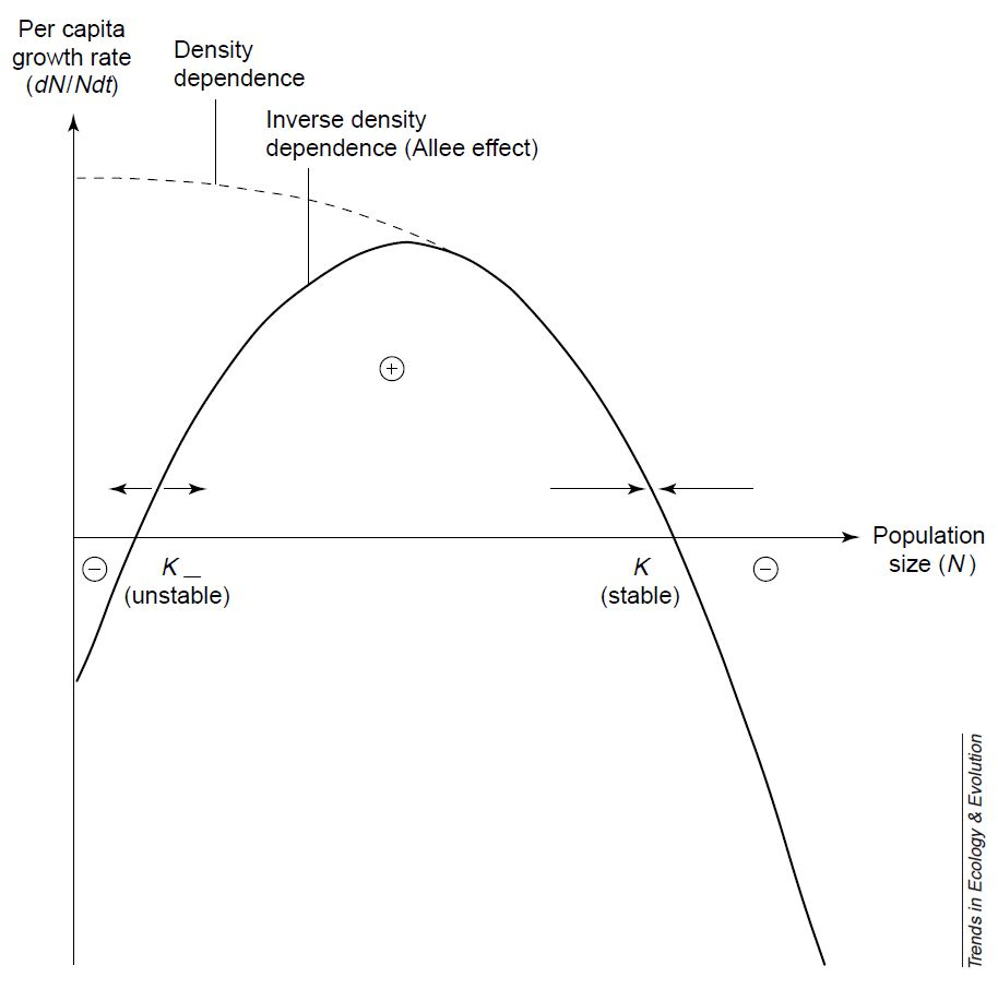 Logistic Growth with Allee effect per capita and equilibrium